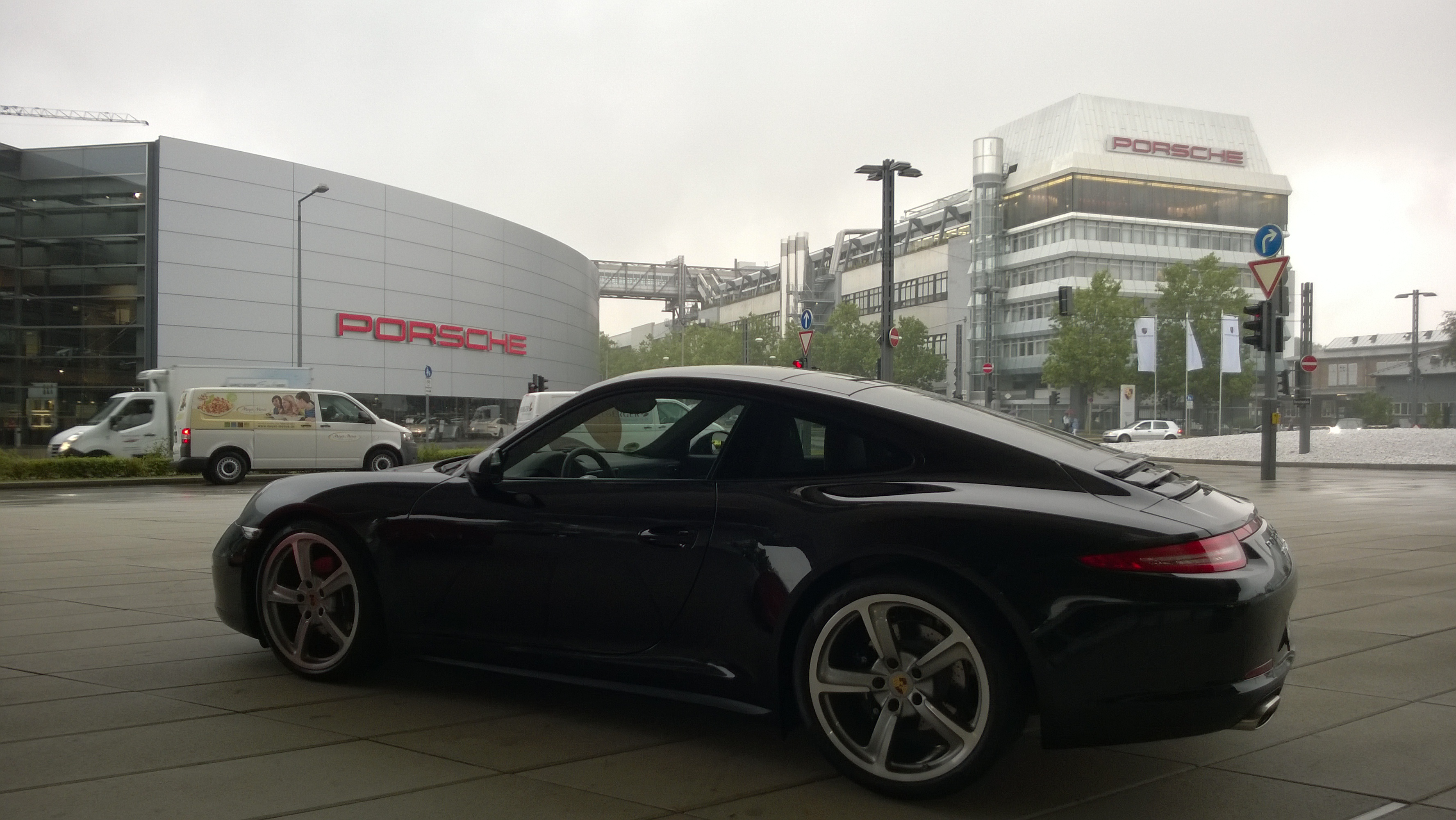 2014 Porsche 911 (991) Carrera 4S in the foreground at Porscheplatz in Stuttgart; in the background to the left is the Porsche Zentrum Stuttgart (central dealership); to the right is the Porschewerk Stuttgart (factory where the 911 is assembled)